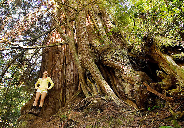 The Refugee Tree is the largest known redcedar growing in the CRD. It measures 14 m around its gigantic base and could be well over 500 years old.